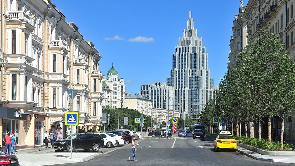 Moscow. Sadovaya-Triumphalnaya street